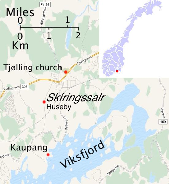 Map showing locations of Skíringssalr, Tjølling and Kaupang in Vestfold county, Norway, with location in Norway inset. Created using material from and File:Larvik location.png